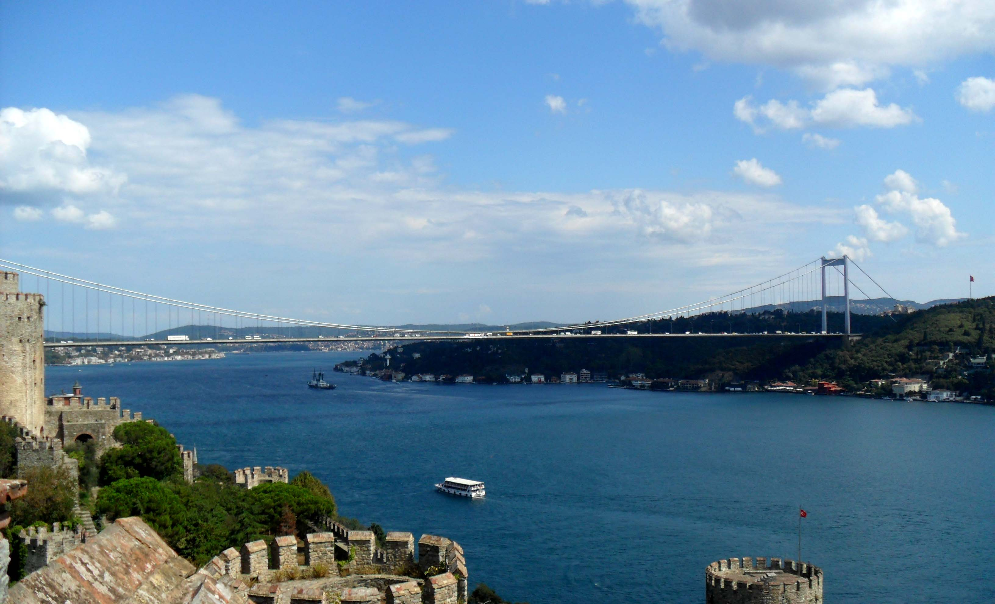 FSM bridge from Rumelihisarı (European side) , İstanbul, Turkey copy